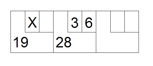 Illustration of a bowling score sheet of course.